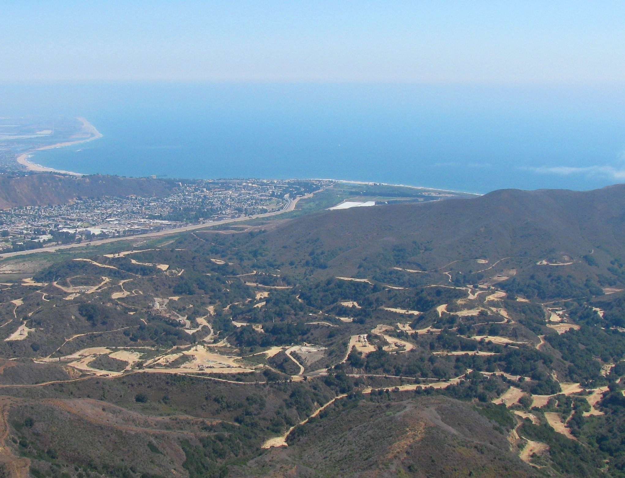 Ventura Oil Field, from the north-northwest, from an airplane; photo by self, GFDL/equiv, July 2009